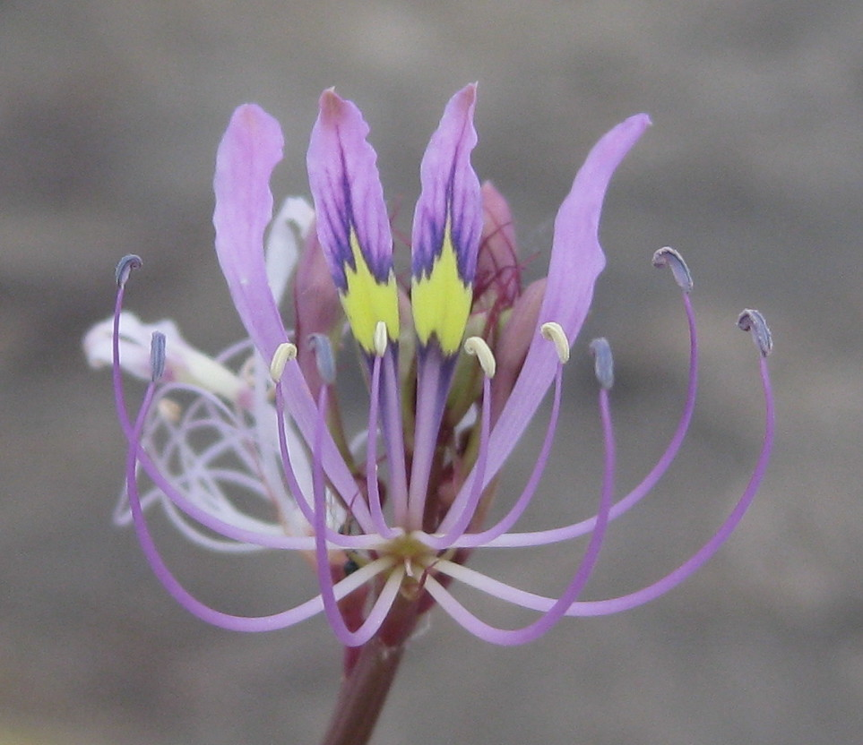 Cleome hirta